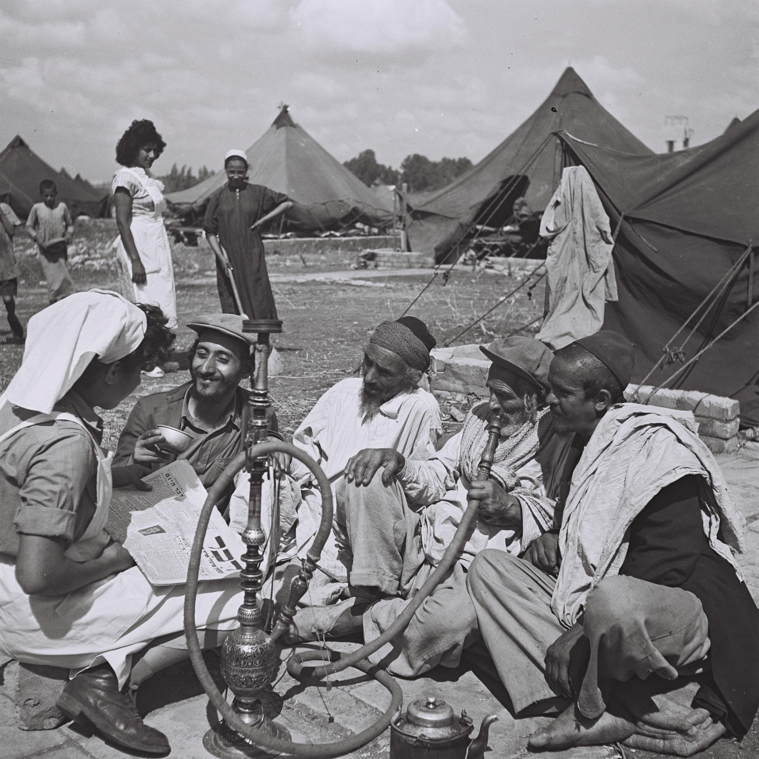 A YOUNG YEMENITE NURSE READING FROM A NEWSPAPER TO NEW IMMIGRANTS AT THE ROSH HA'AYIN CAMP.